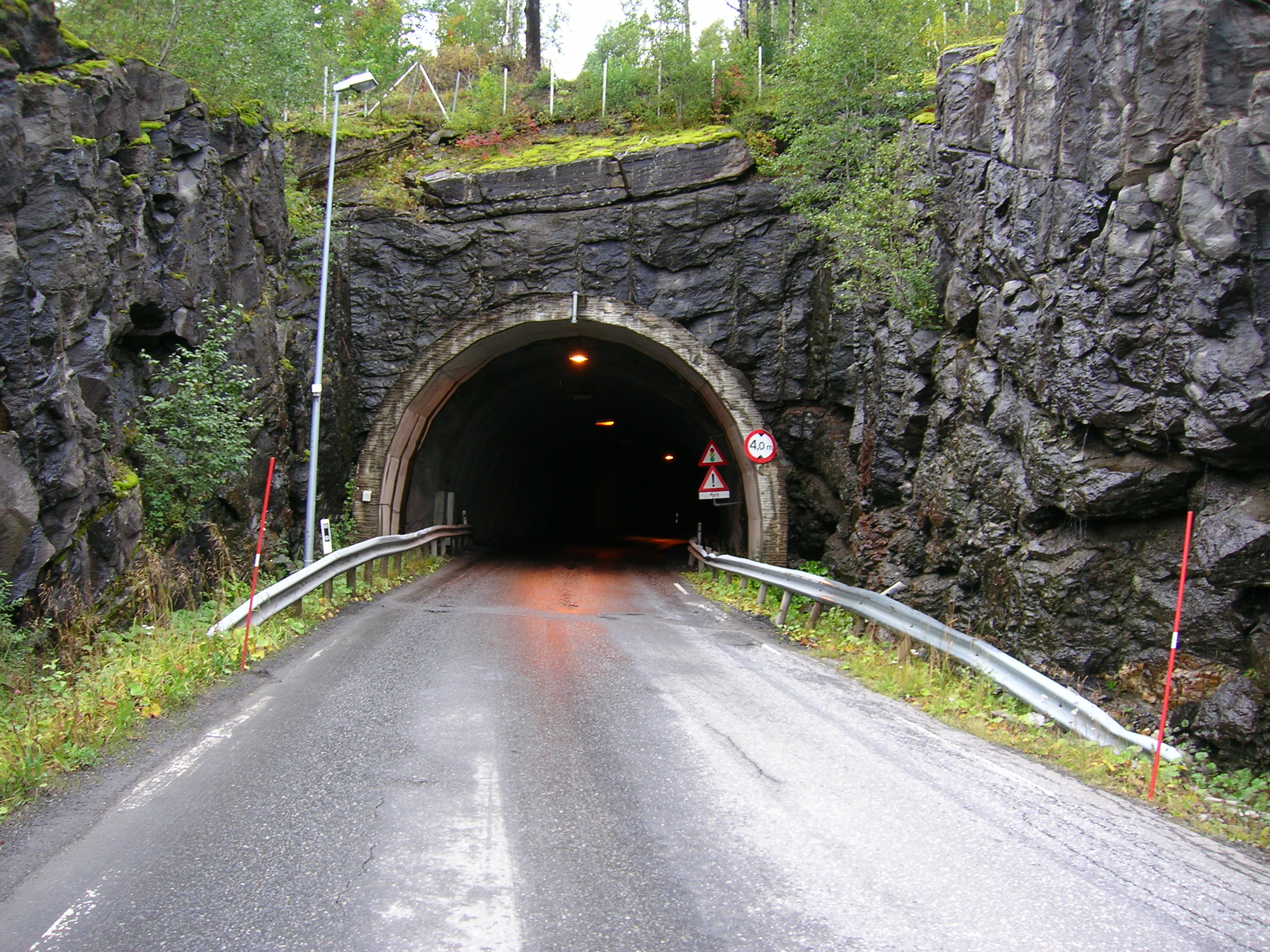 The Sjona tunnel, seen from its southern entrance. Rana municipality, county of Nordland, Norway, Photo 16 September, 2005 with a Nikon Coolpix 5600 5,1 Megapixel camera.